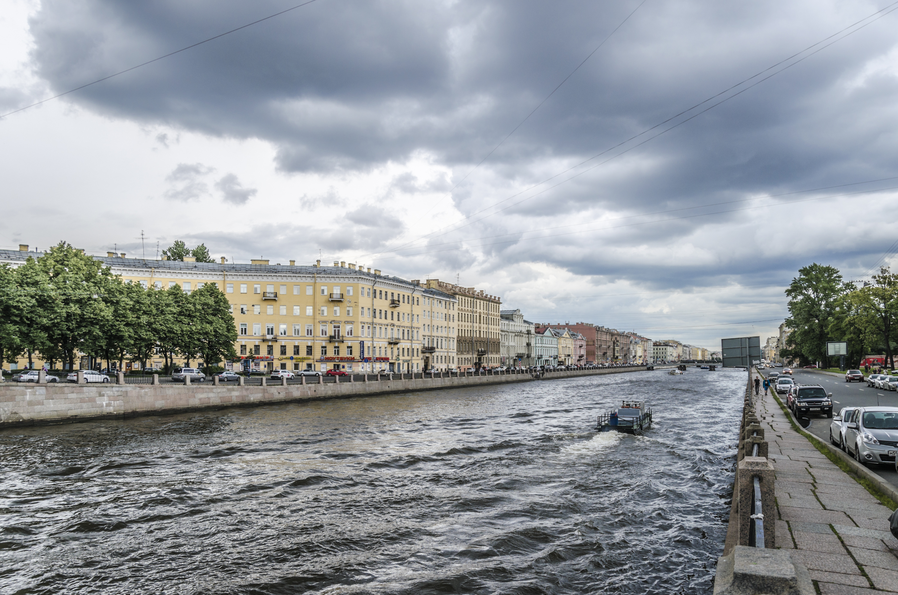 Fontanka river in Saint Petersburg, Russia. View from Obukhovskiy bridge.